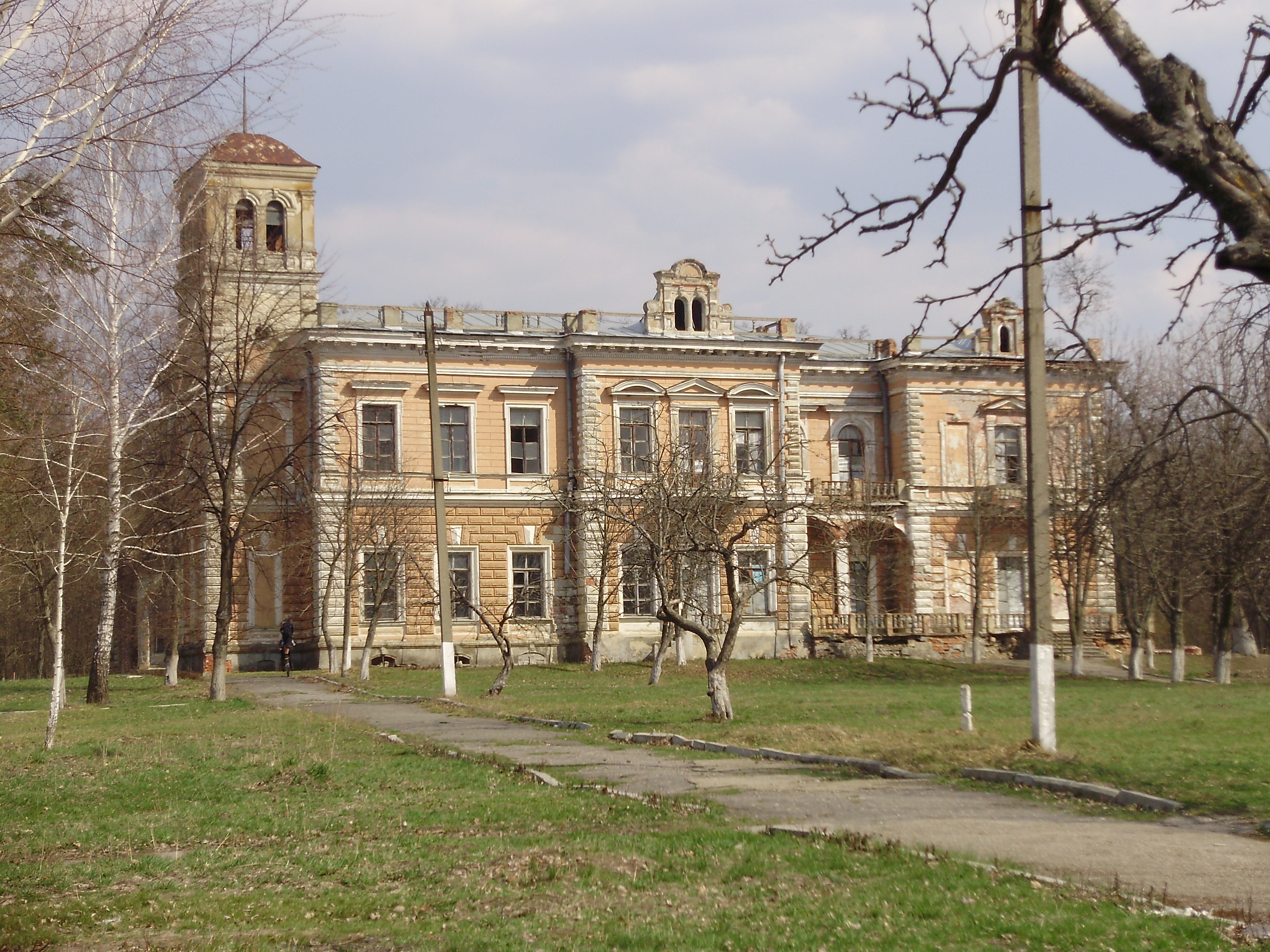 The country residence of Ivan Kharitonenko's niece Maria Leschinskaya in Kiyanitsa near Sumy